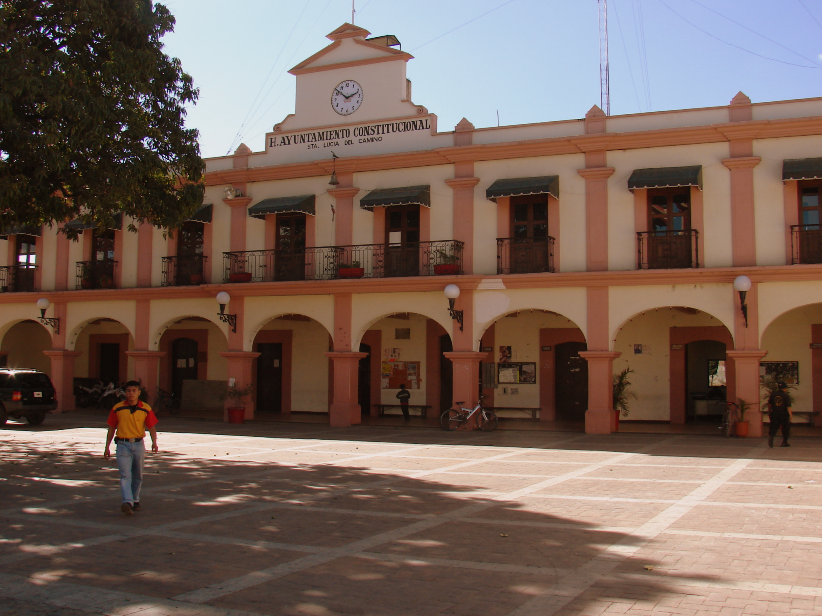 City Hall of the municipality of Santa Lucia del Camino, Oaxaca, México.